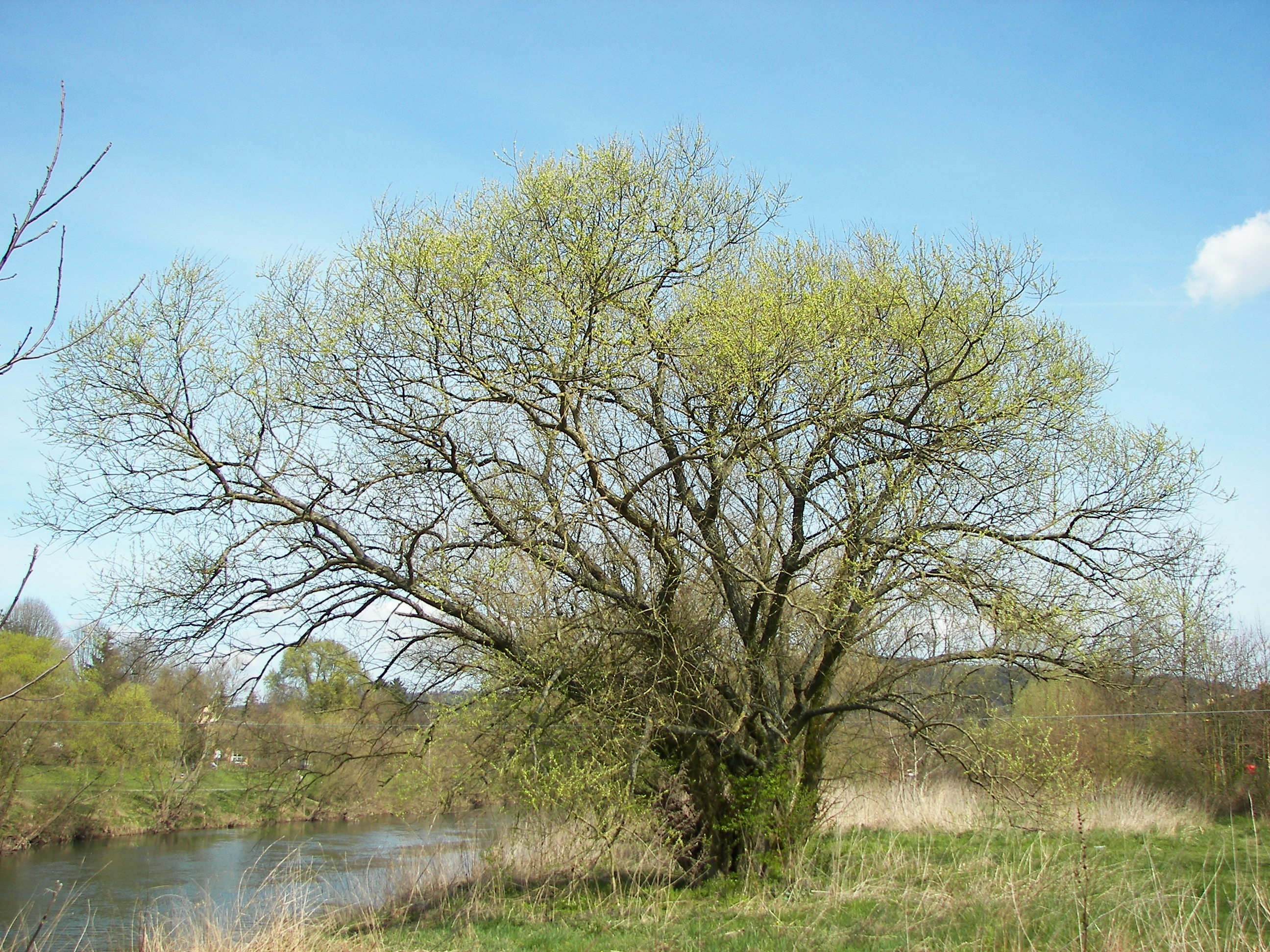 White Willow (Salix alba), Location: Marburg, Hesse, Germany